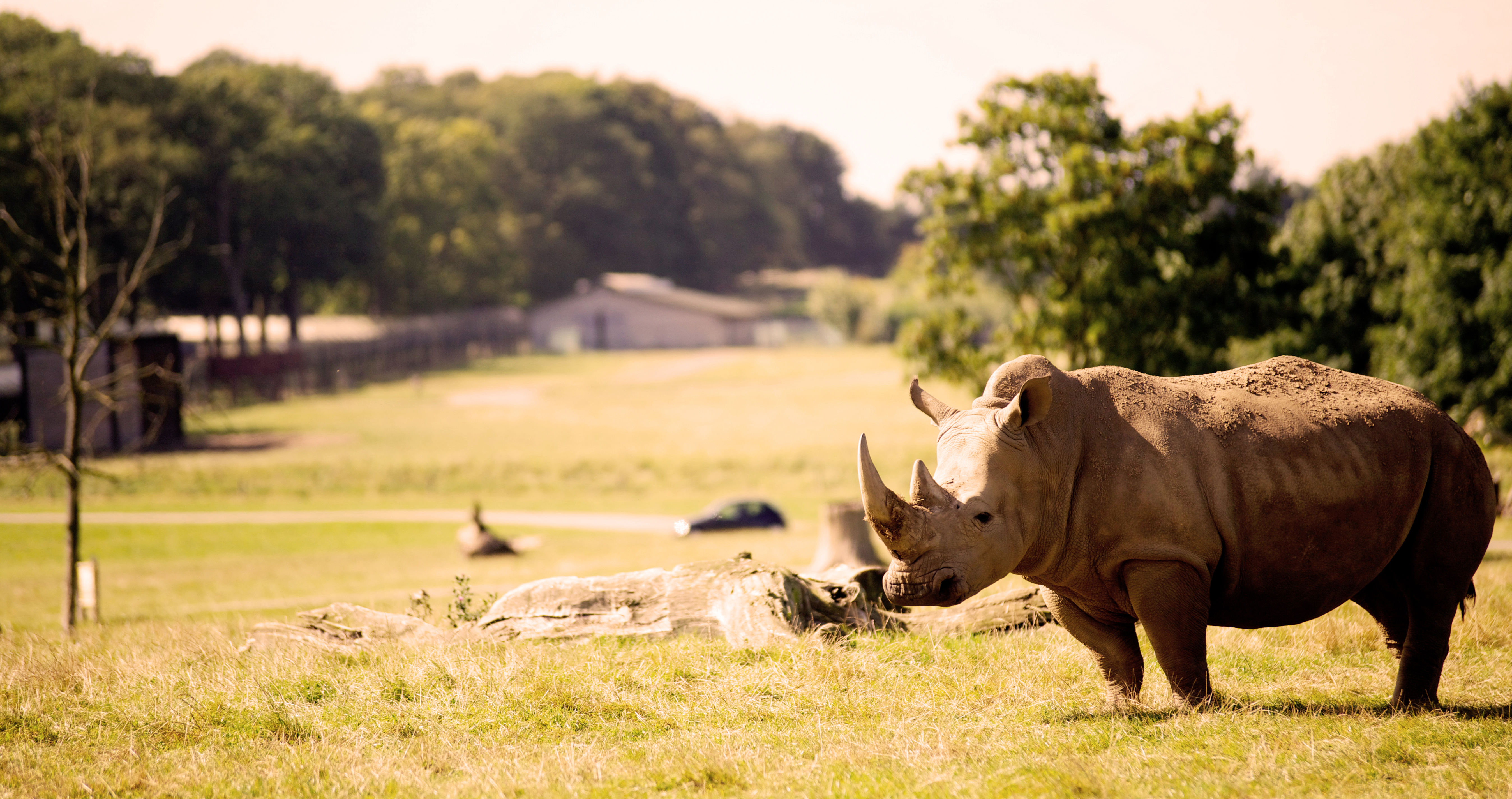 Southern White Rhino in the African Savannah reserve of Woburn Safari Park